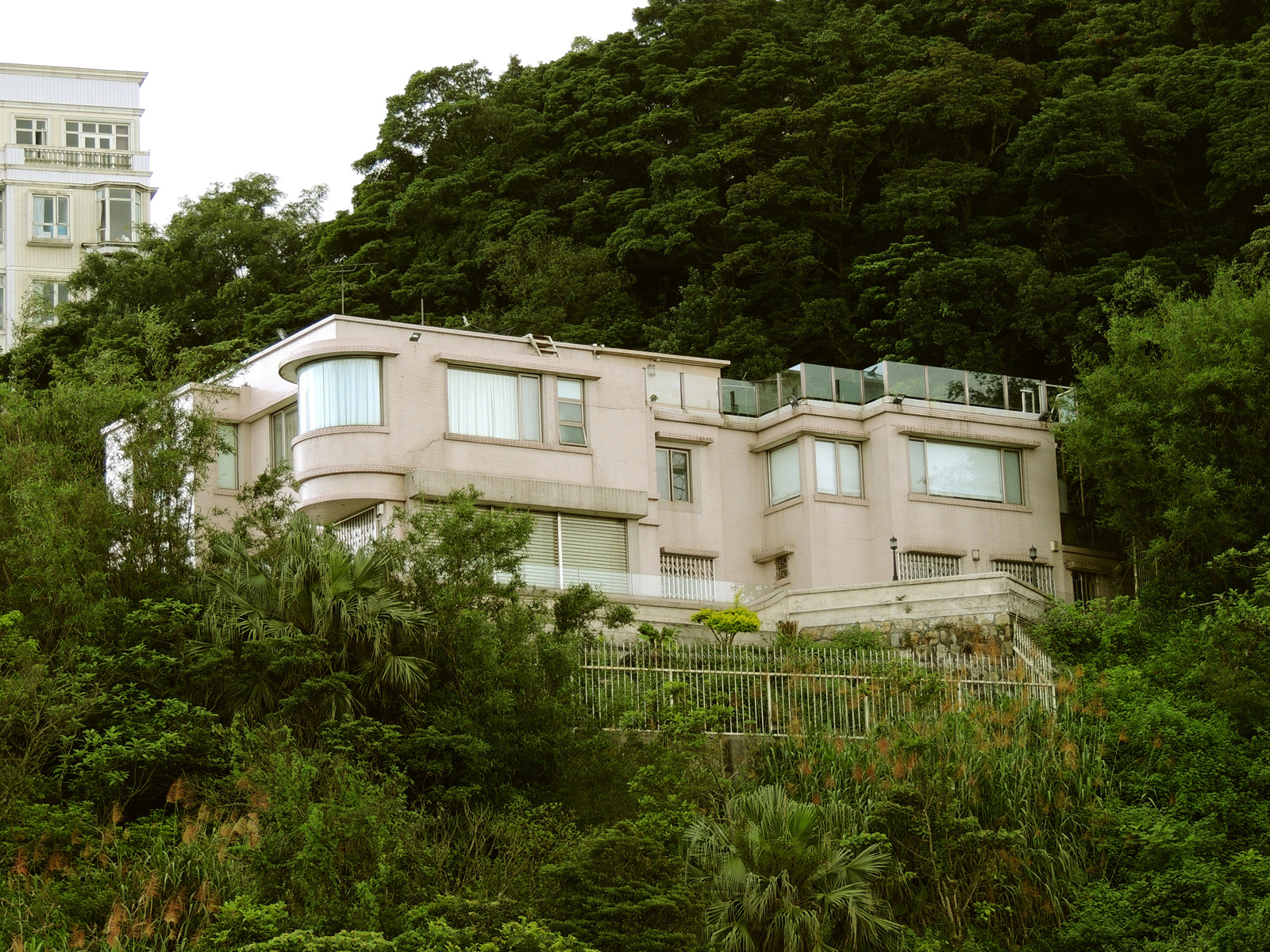 Chu Wan, No. 4 Mount Austin Road